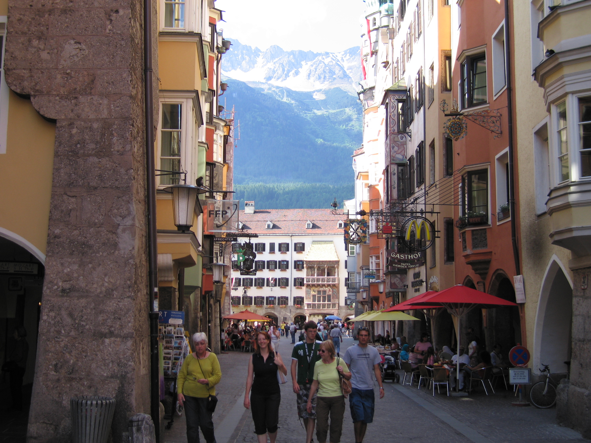 The older pedestrian district of Innsbruck with the famous Goldenes Dachl (Golden Roof) and the alps in the background Author: John C. Watkins V